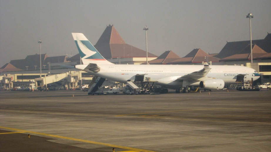 Cathay Pacific Airbus A330-300 at Juanda International Airport, Surabaya